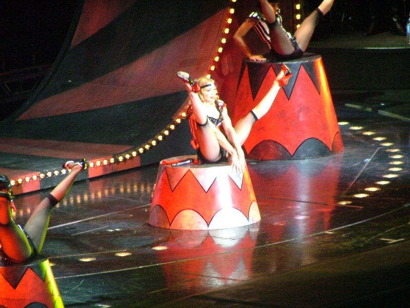 Madonna Concert